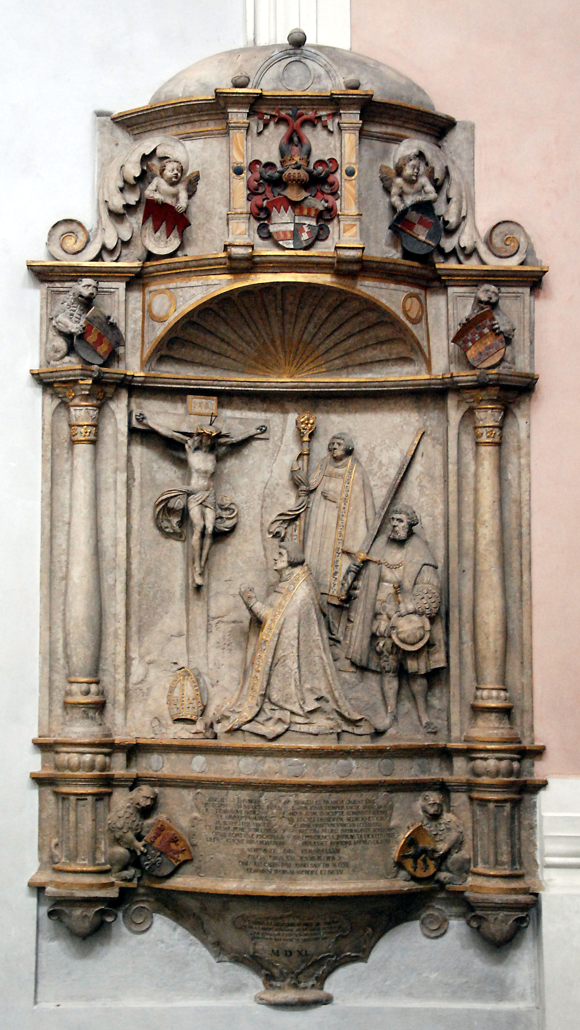 Bishop Konrad von Thüngen grave